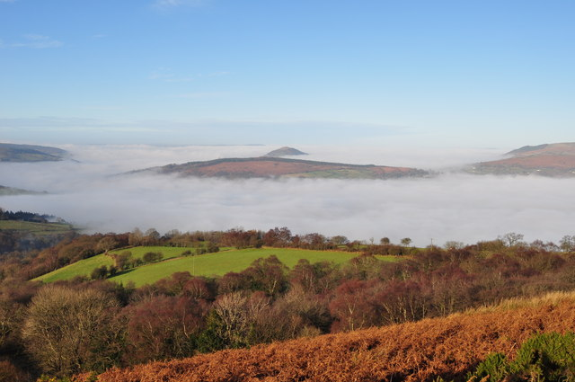 Llangynydir hidden by mist